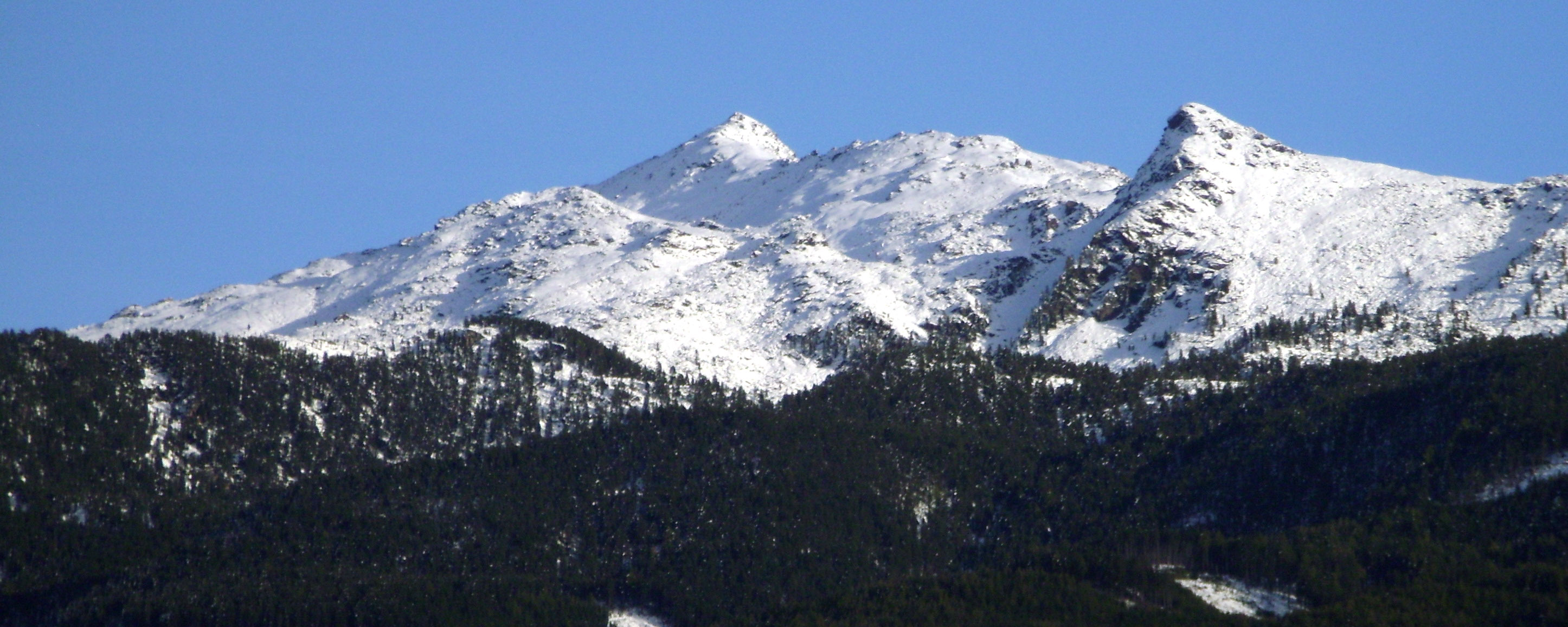 Sonnenspitze (2639m) near Glungezer (2677m) seen from Innsbruck (NW). left front Bärenbader Jöchl, right Neunerspitze (2285m)